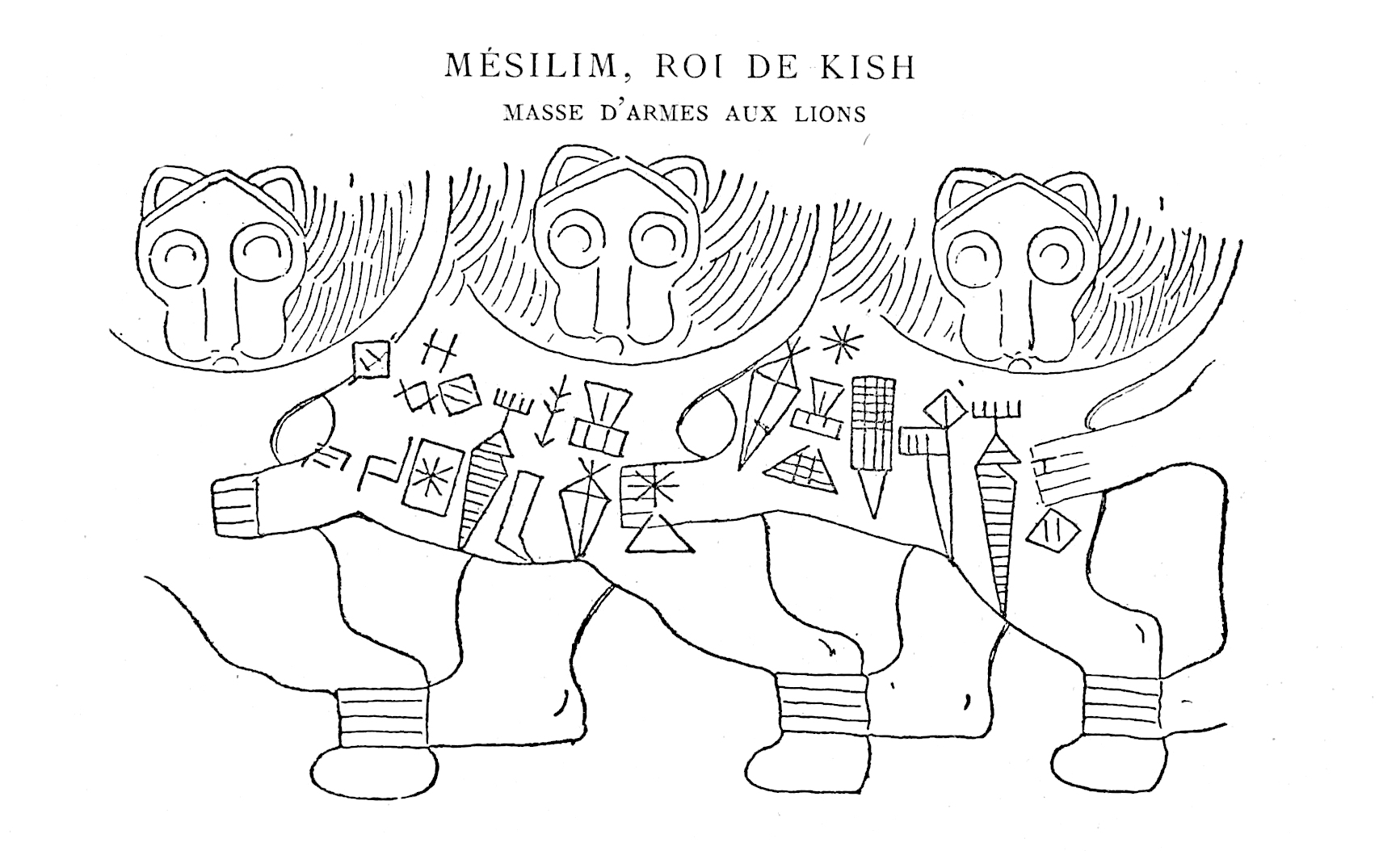 Mesilim macehead inscription